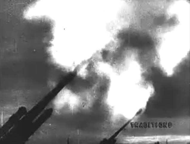 Still from Moscow Strikes Back, Soviet documentary of the Battle of Moscow. Directed by Ilya Kopalin. 1 of 4 films to win the 1943 Academy Award for Best Documentary.